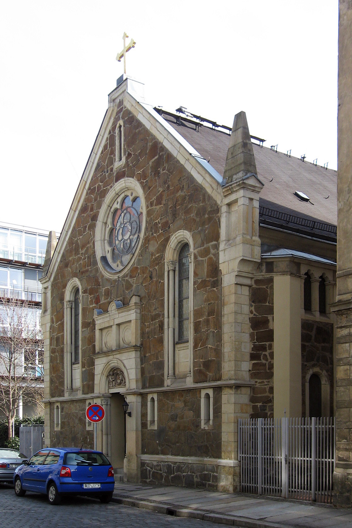 Catholic Apostolic church in the Marienstadt, Leipzig, Dohnanyistrasse 22